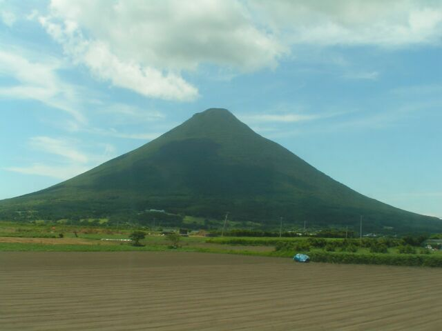 Mount Kaimon, Ibusuki, Kagoshima. This photo was taken from JR Ibusuki Makurazaki Line train.